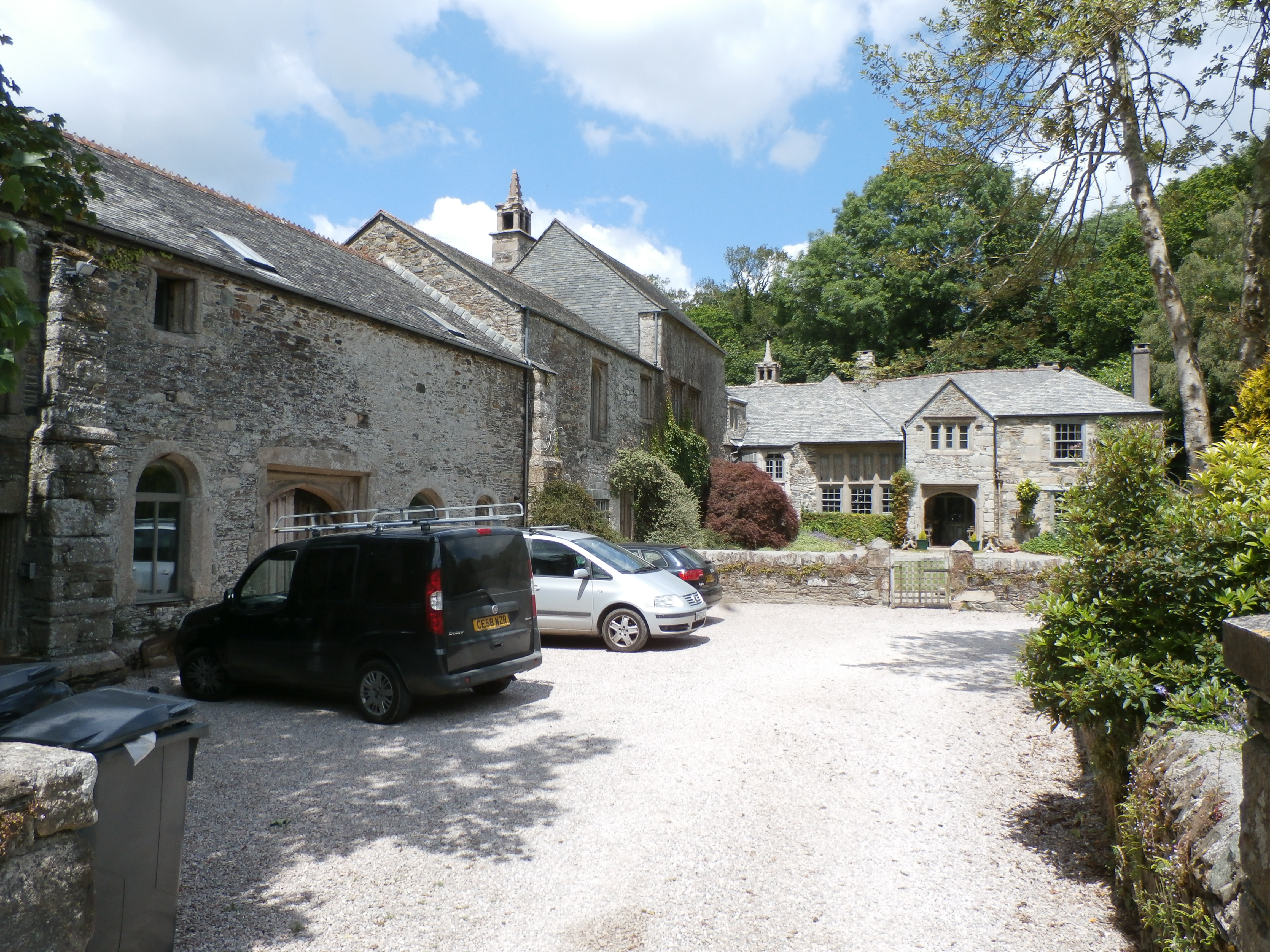 Old Newnham, Plymstock St Mary, Devon